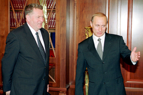 THE KREMLIN, MOSCOW. With the leader of the LDPR Vladimir Zhirinovsky.